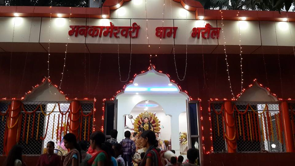 temple